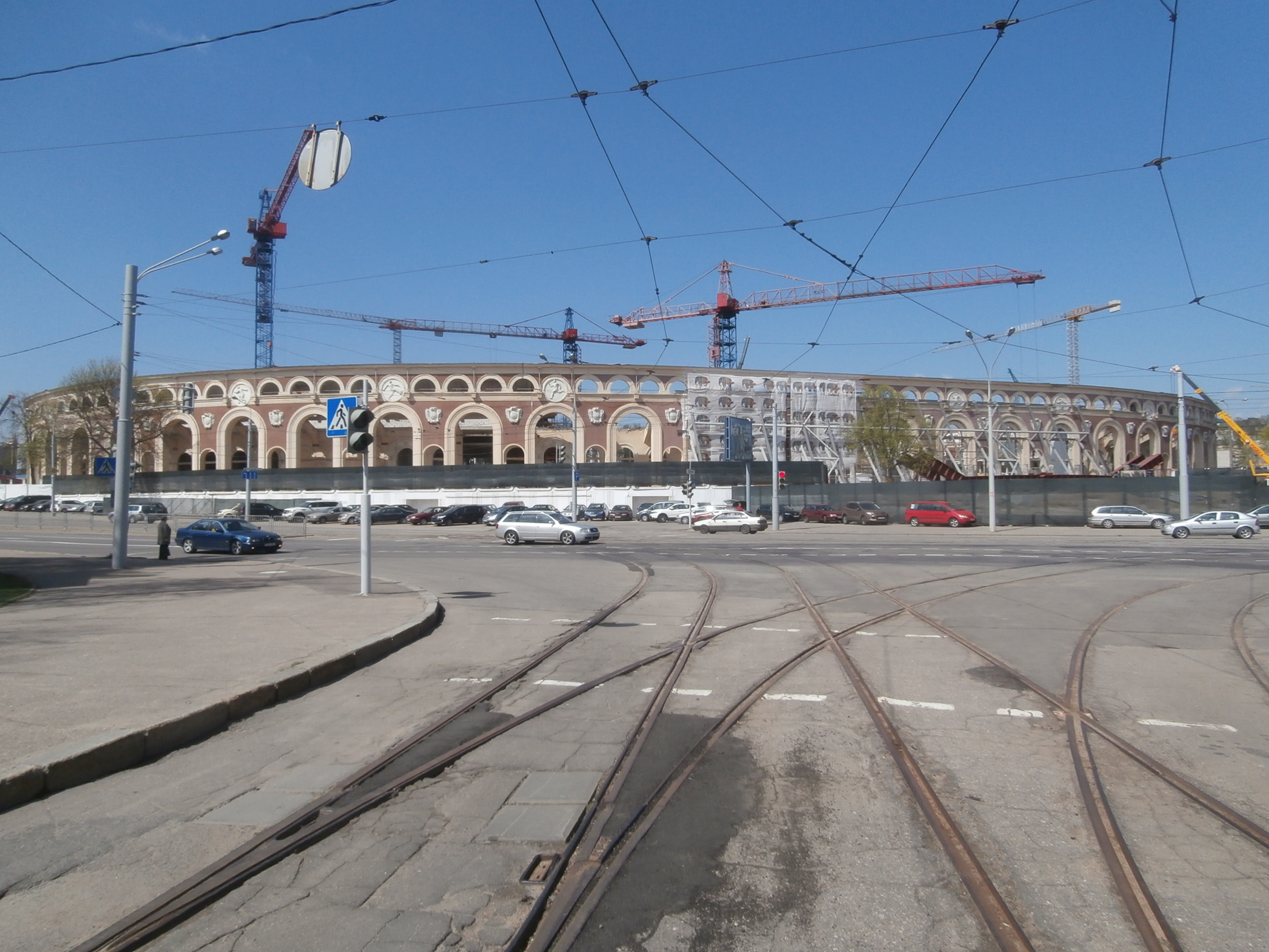 Decommissioned Tram Tracks at three-way Junction ul. Ulyanovskaya - ul. Oktyabrskaya in Minsk 5 May 2016